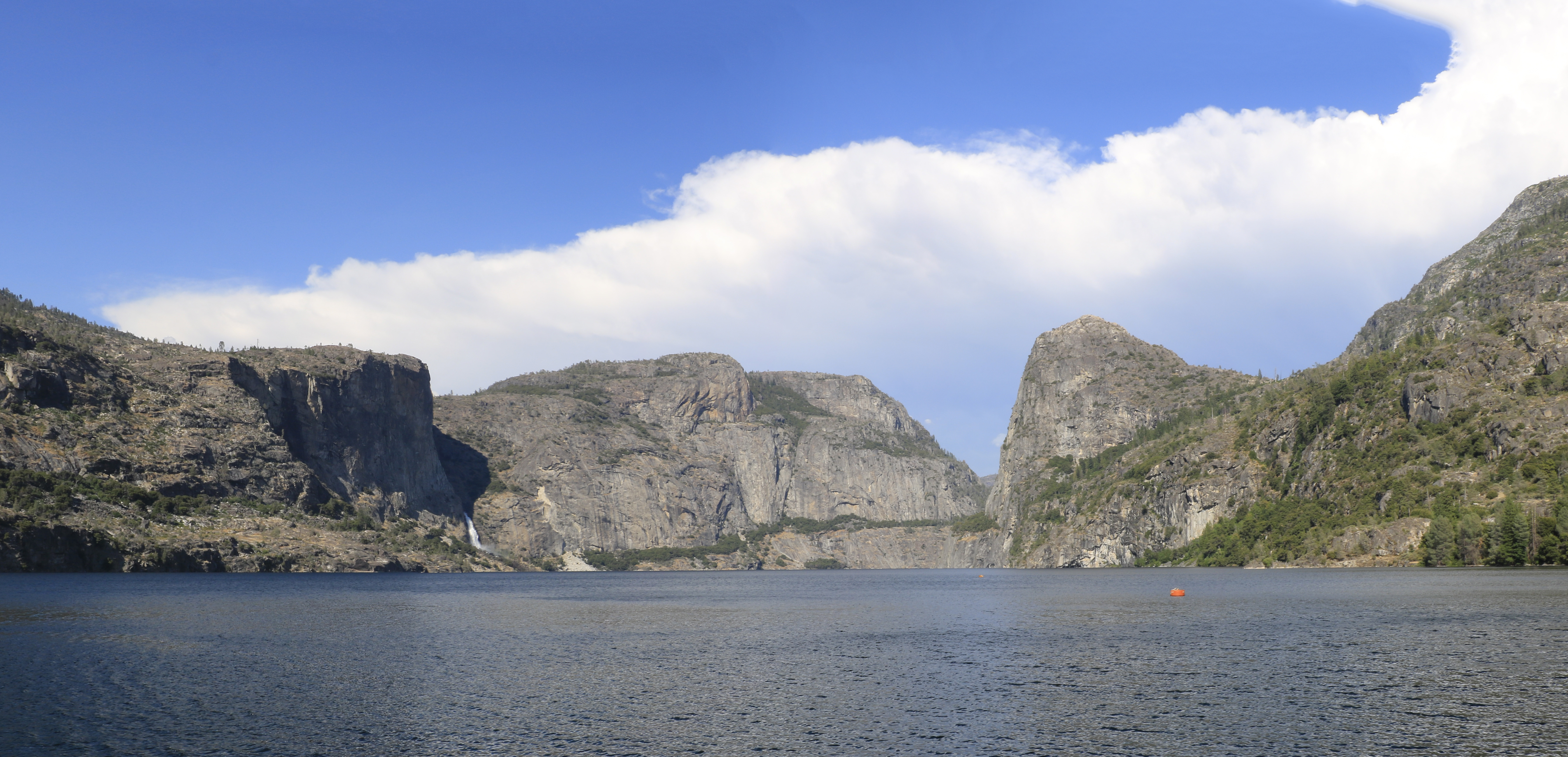 Hetch Hetchy Panorama - Yosemite-Nationalpark